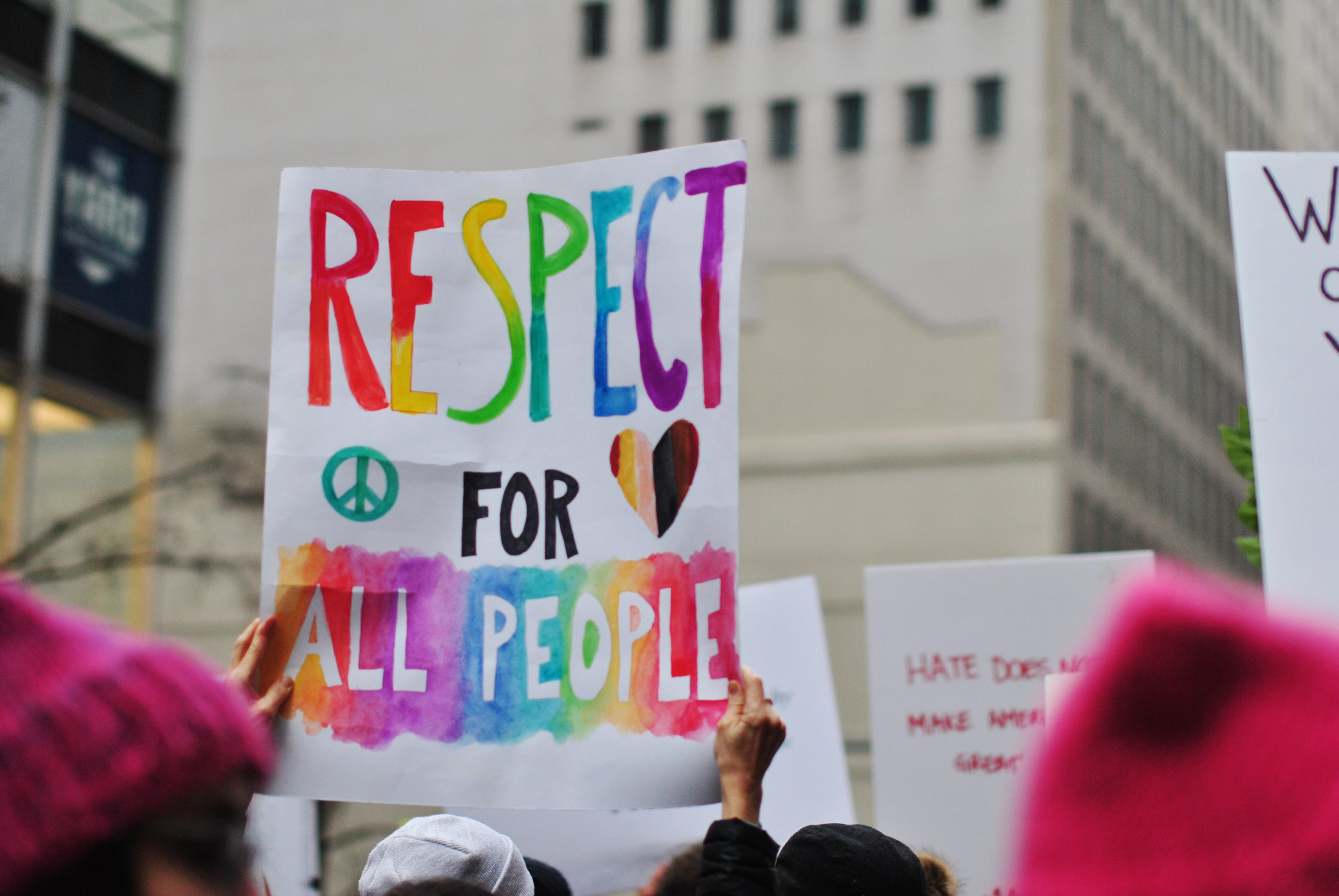 Women's March in New York || 1.21.17